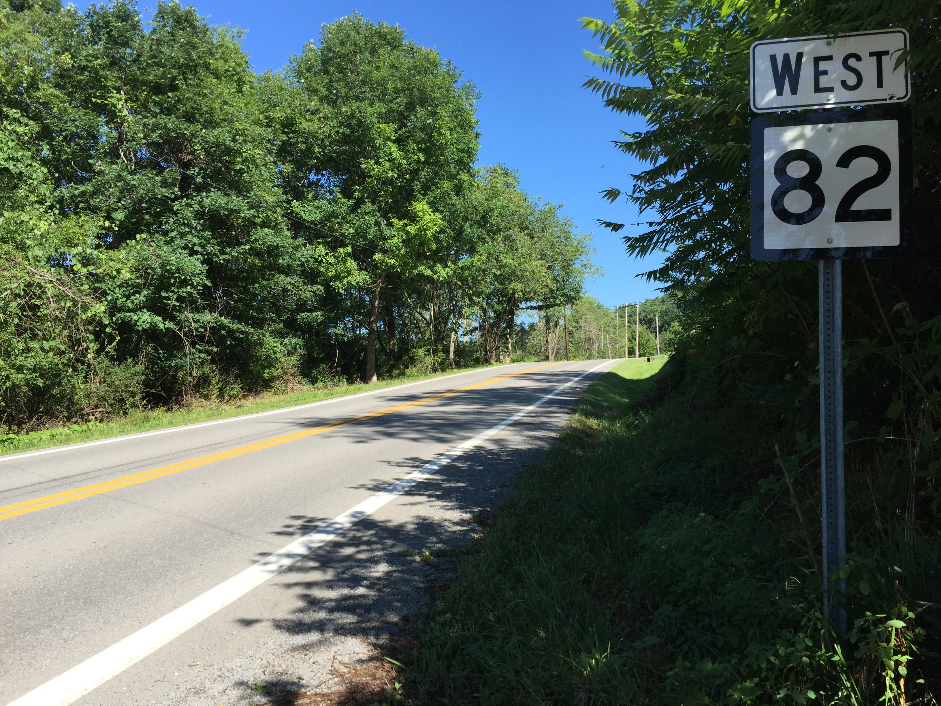 View west along West Virginia State Route 82 (Birch River Road) at West Virginia State Route 20 (Webster Road) in Welch Grade, Webster County, West Virginia